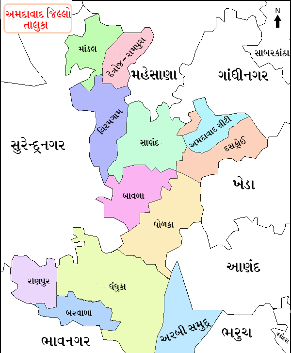 Taluka Map of Ahemdabad District, Gujarat, India. (Lang:Gujarati) ગુજરાતી: અમદાવાદ જિલ્લાનો તાલુકા નકશો. (ગુજરાતી ભાષા)